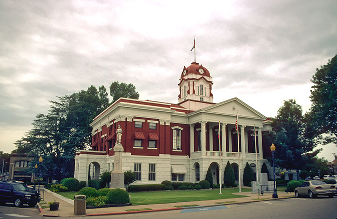 Front of the White County Courthouse, located on Court Square in Searcy, Arkansas, United States. Built in 1871, it is listed on the National Register of Historic Places.